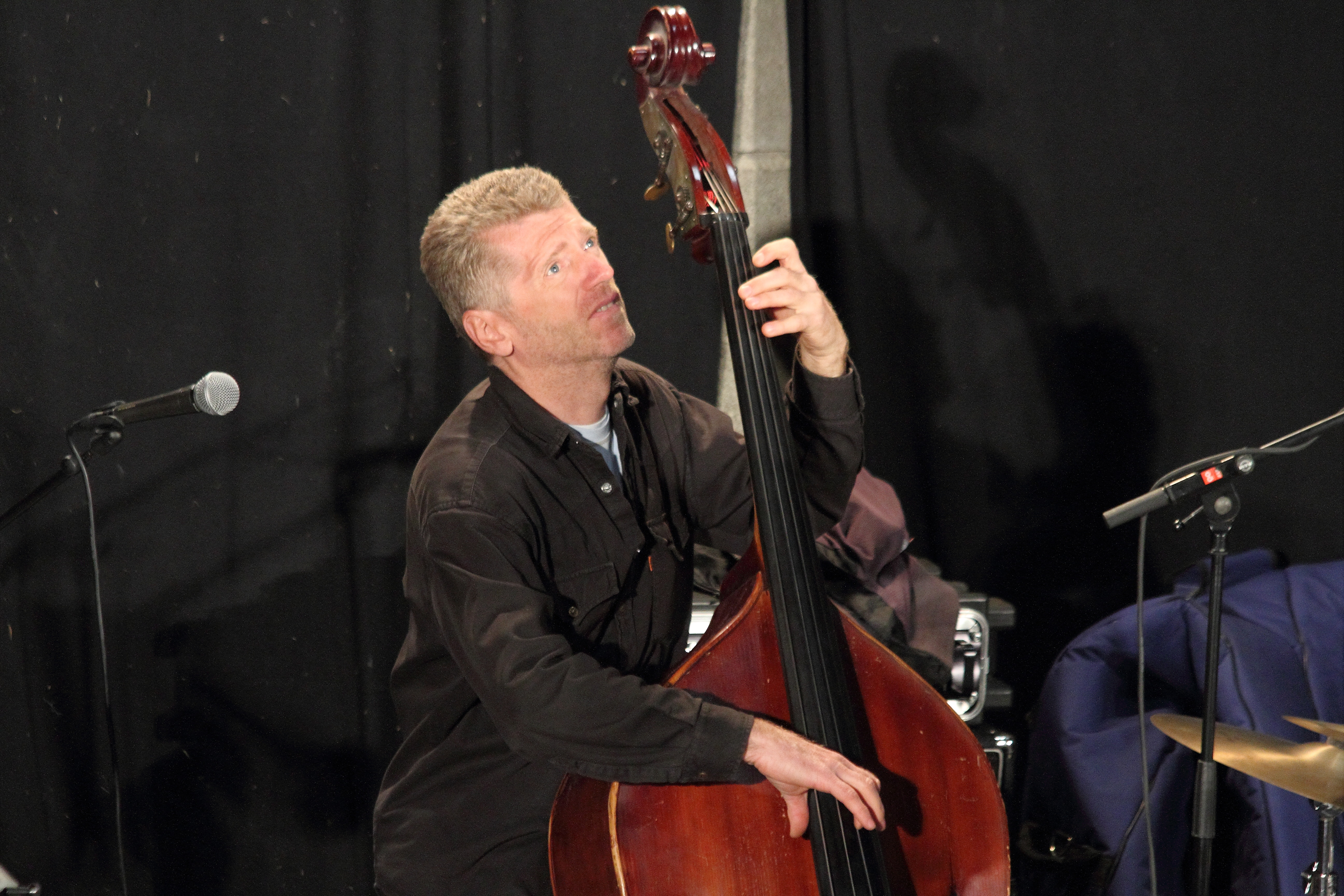 The AMC Trio from Slovakia at INNtöne Jazzfestival, Austria 2013.